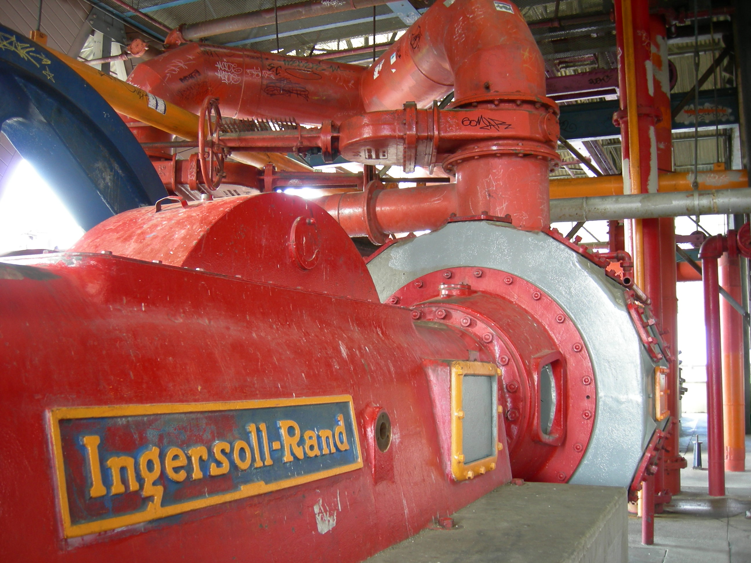 Gas Works Park, Seattle, Washington.